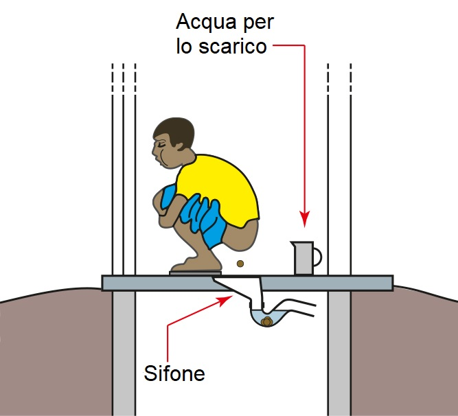 Pour flush toilet - squatting pan with water seal (schematic)